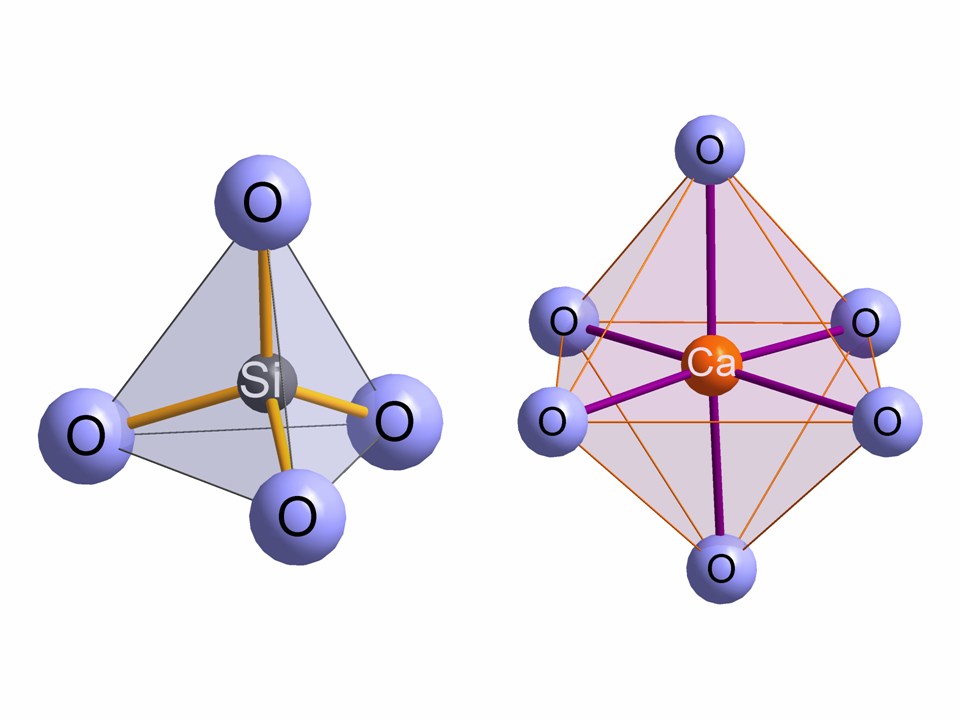 Si and Ca coordination spheres in Wollastonite (Si- and Ca-Umgebung in Wollastonit)